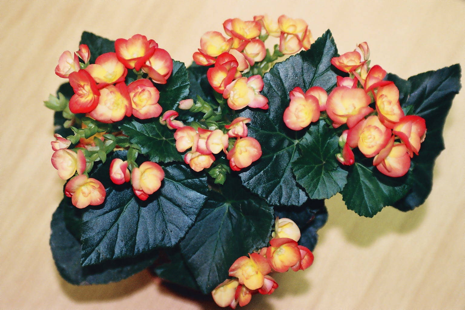 Begonia × hiemalis 'Filur'.